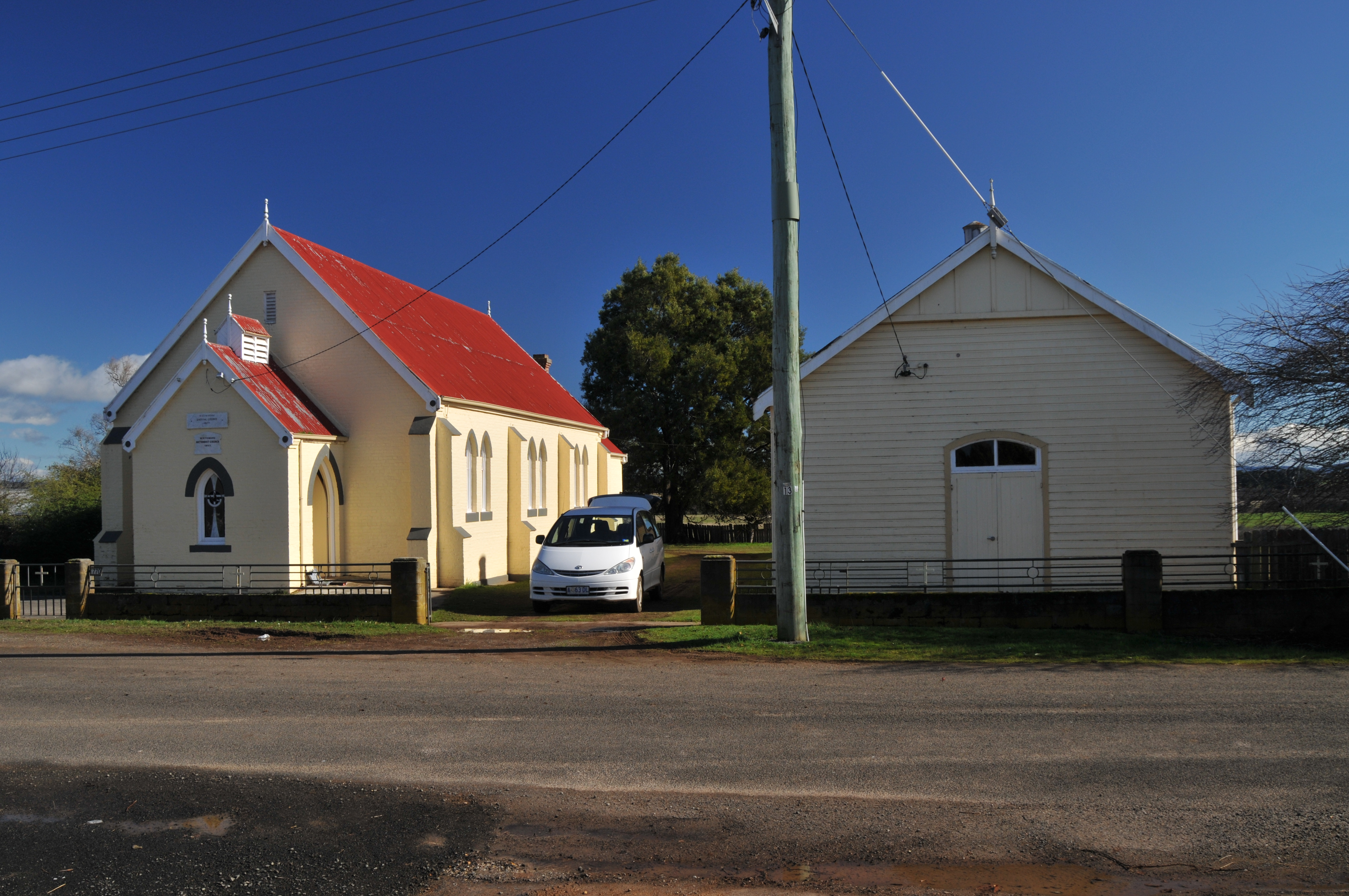 1865 Methodist (since 1977 a Uniting) Church and the memorical hall at Whitemore, Tasmania, Australia